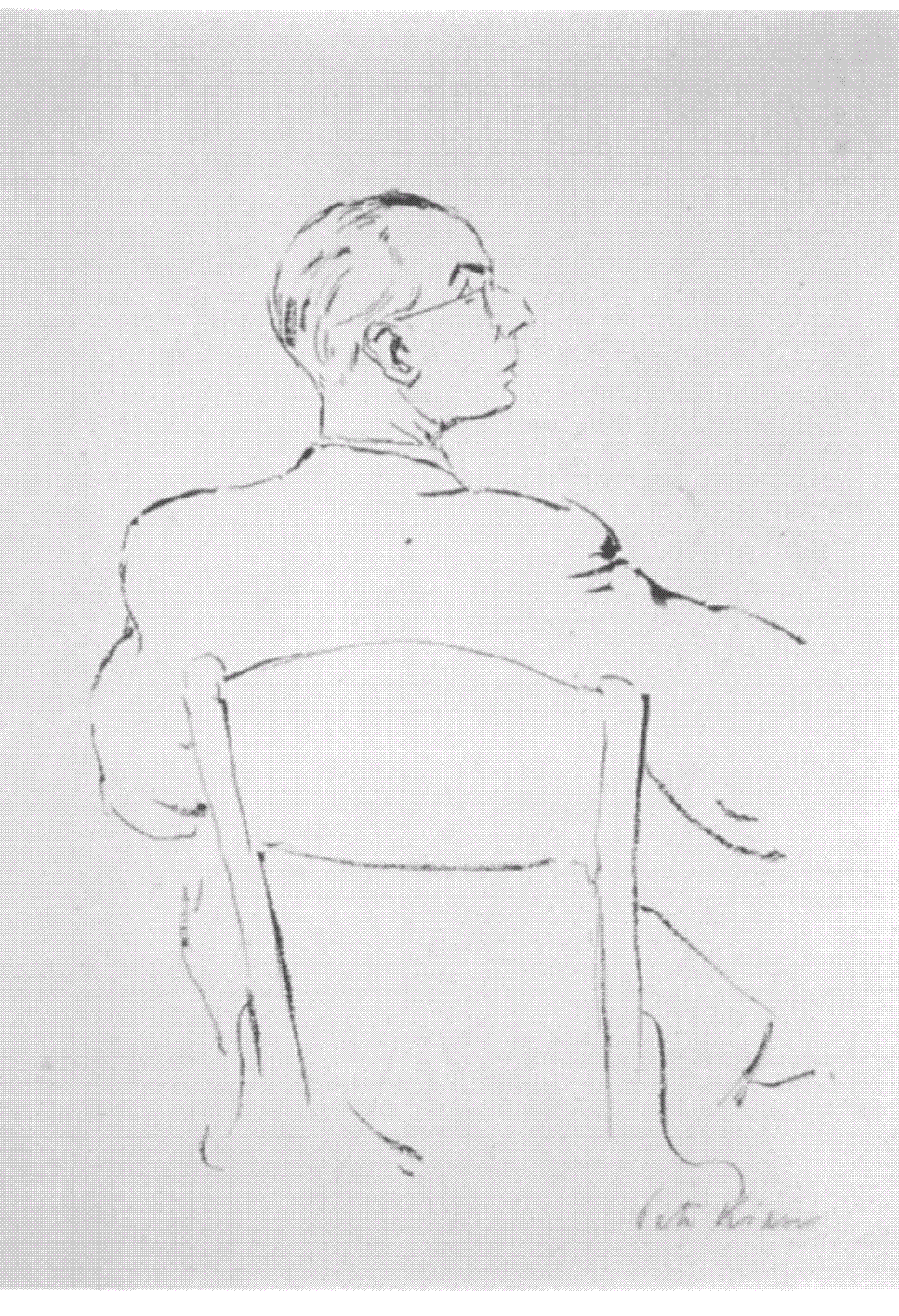 sketch of Carlo Taube made by artist Petr Kien in the Terezin ghetto.